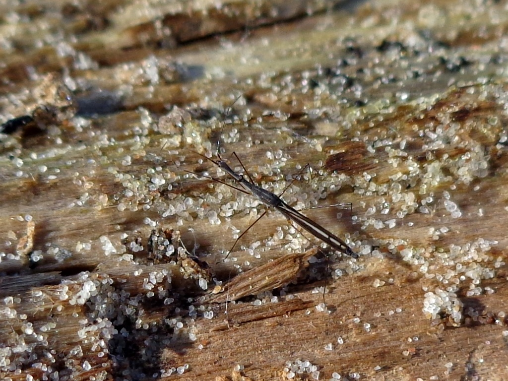 Hydrometra gracilenta. Found in Bigauņciems village near Jūrmala city, Latvia